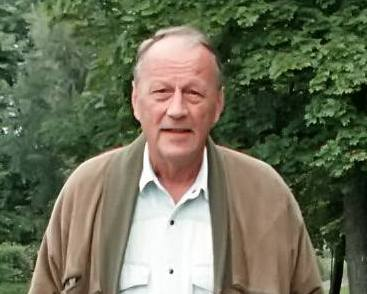 Swedish officer, politician and hofmarschall Björn von der Esch (January 11 1930-March 6 2010)